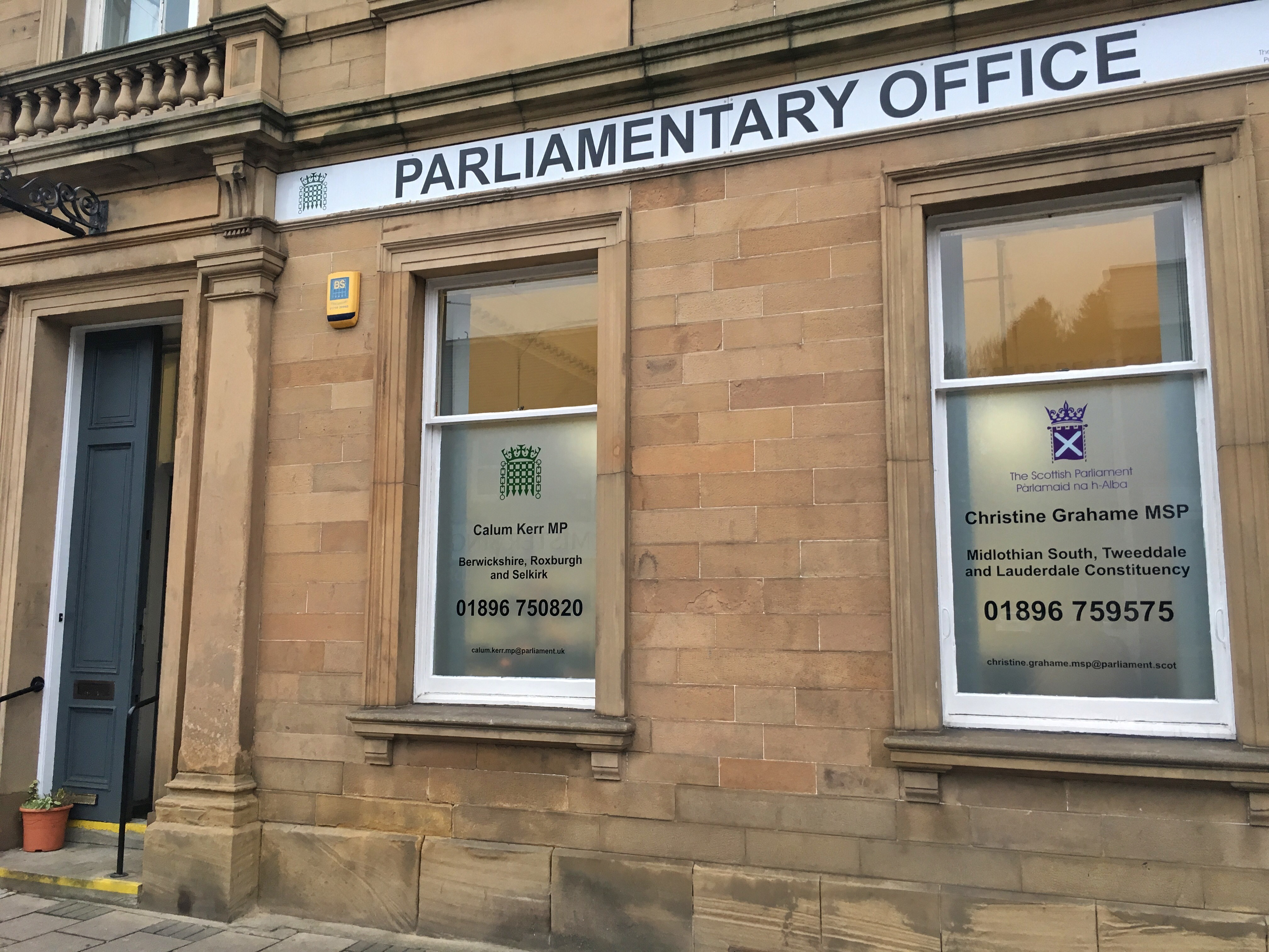 Constituency office of Christine Grahame MSP and Callum Kerr MP